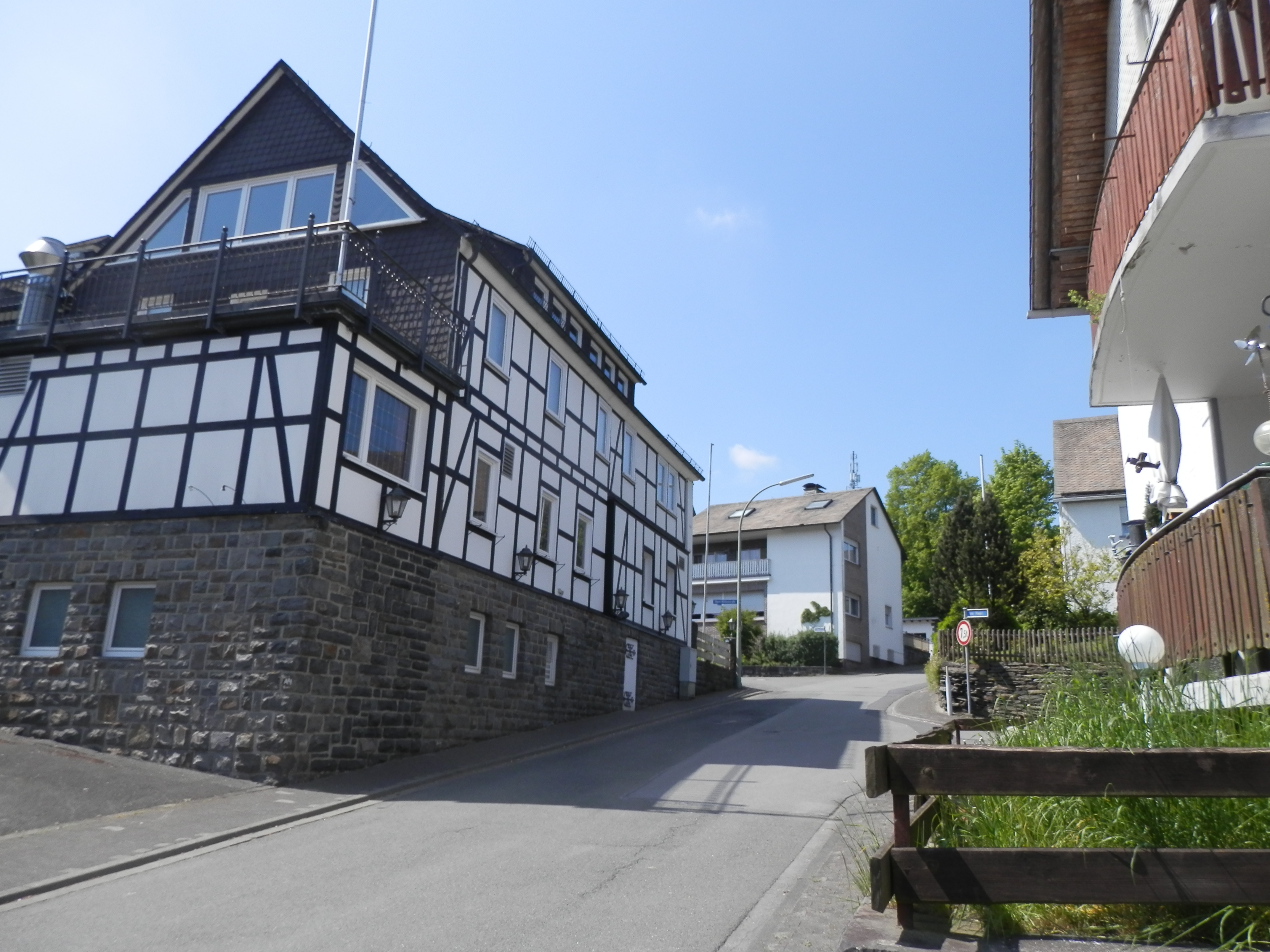 Grevenstein (D,NRW) Burgstraße